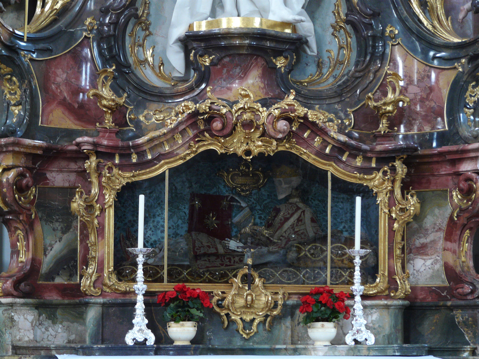 Altar of the Guardian Archangel at :en:Ottobeuren Abbey|Ottobeuren Abbey , Ottobeuren, Germany